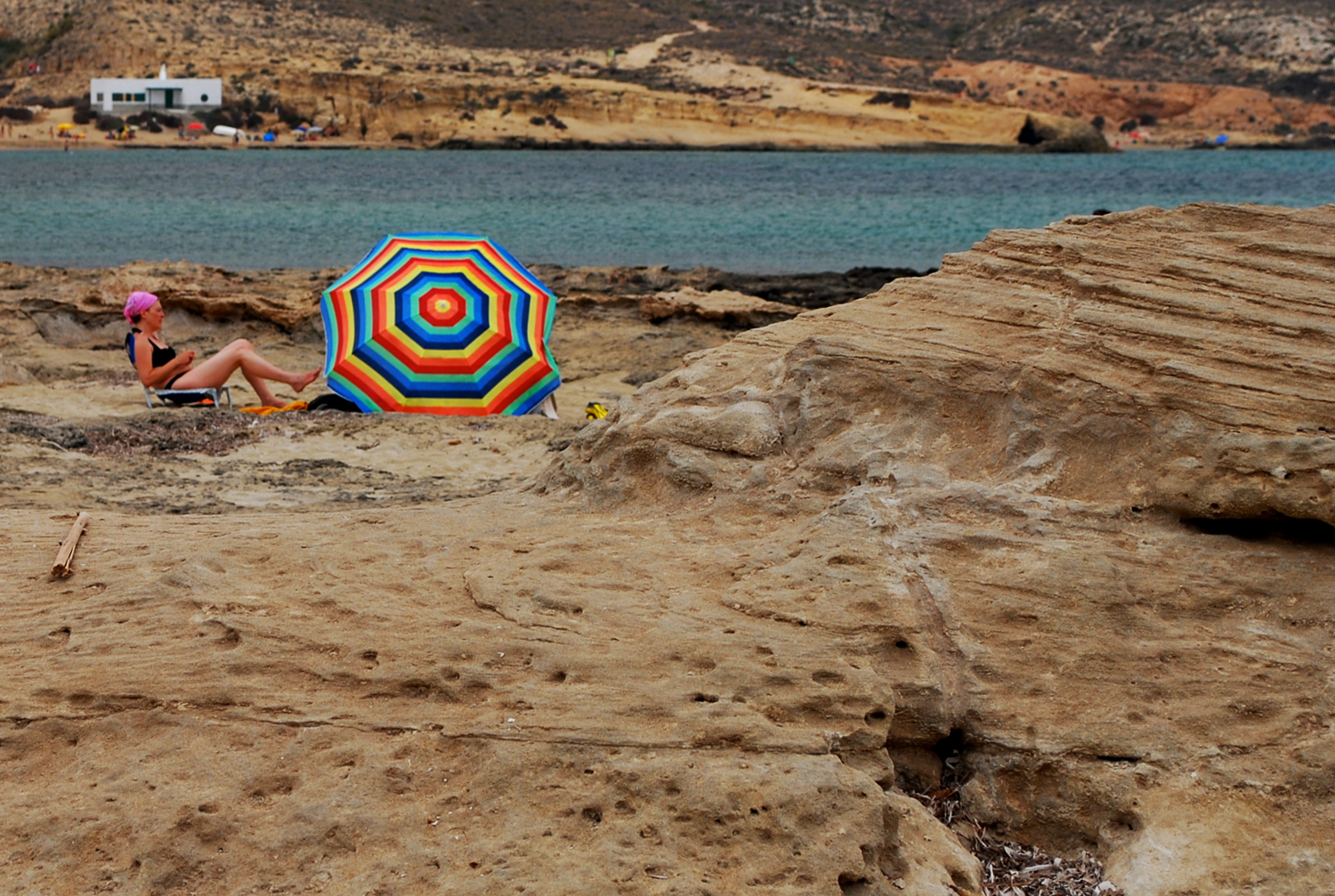 The beach of Playa el Playazo is the most popular near to the former mining town of Rodalquilar.